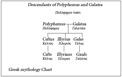 Cyclops Polyphemus and his wife Galatea with siblings Illyrius ,Celtus and Galas progenitors of ,the Celts, the Illyrians, and the Galatians.